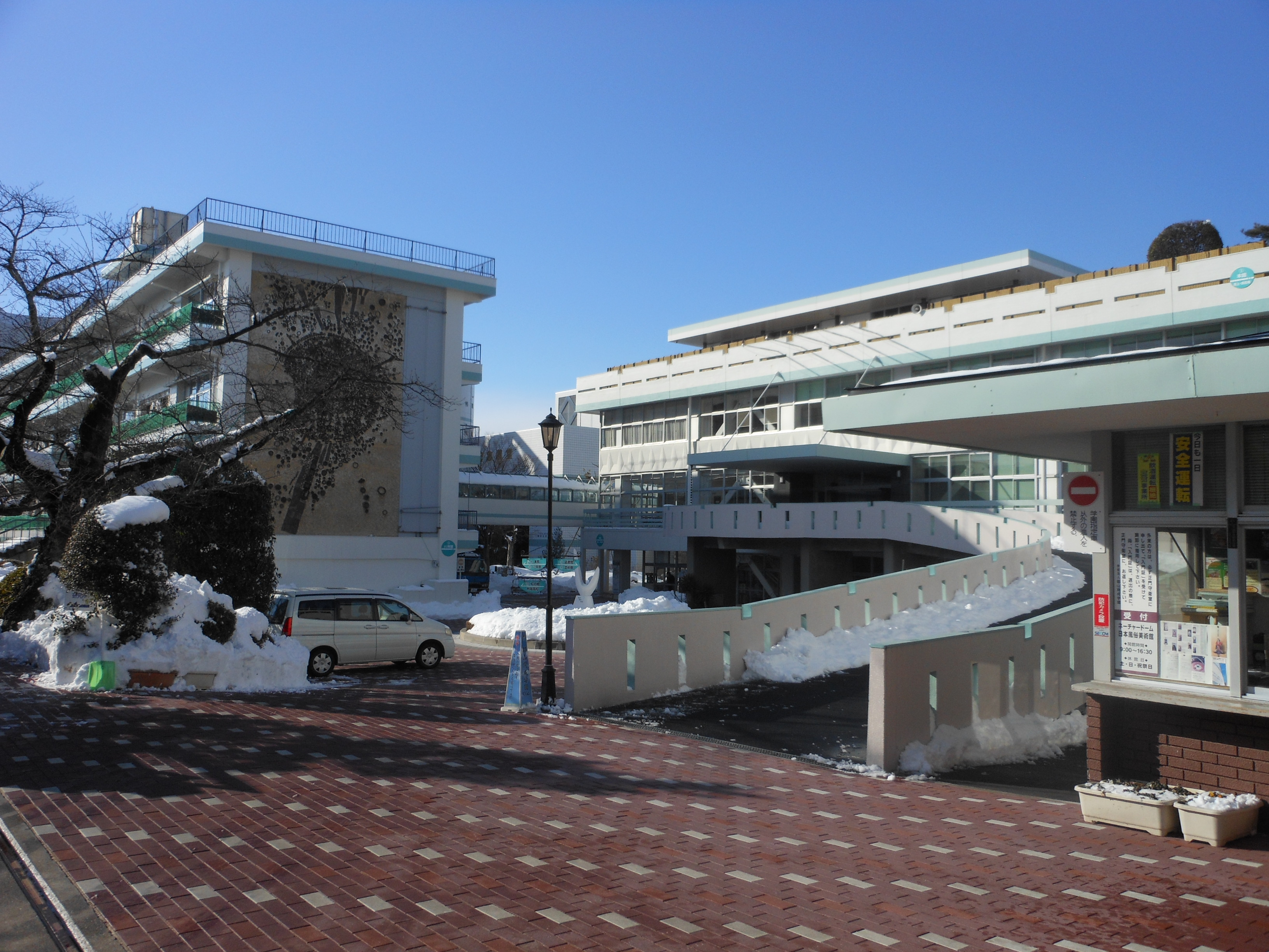 This is a gate of Koriyama Women's University & College in Koriyama city, Fukushima prefecture, Japan.